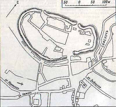 Map of Minsk Castle on the plan in 1793